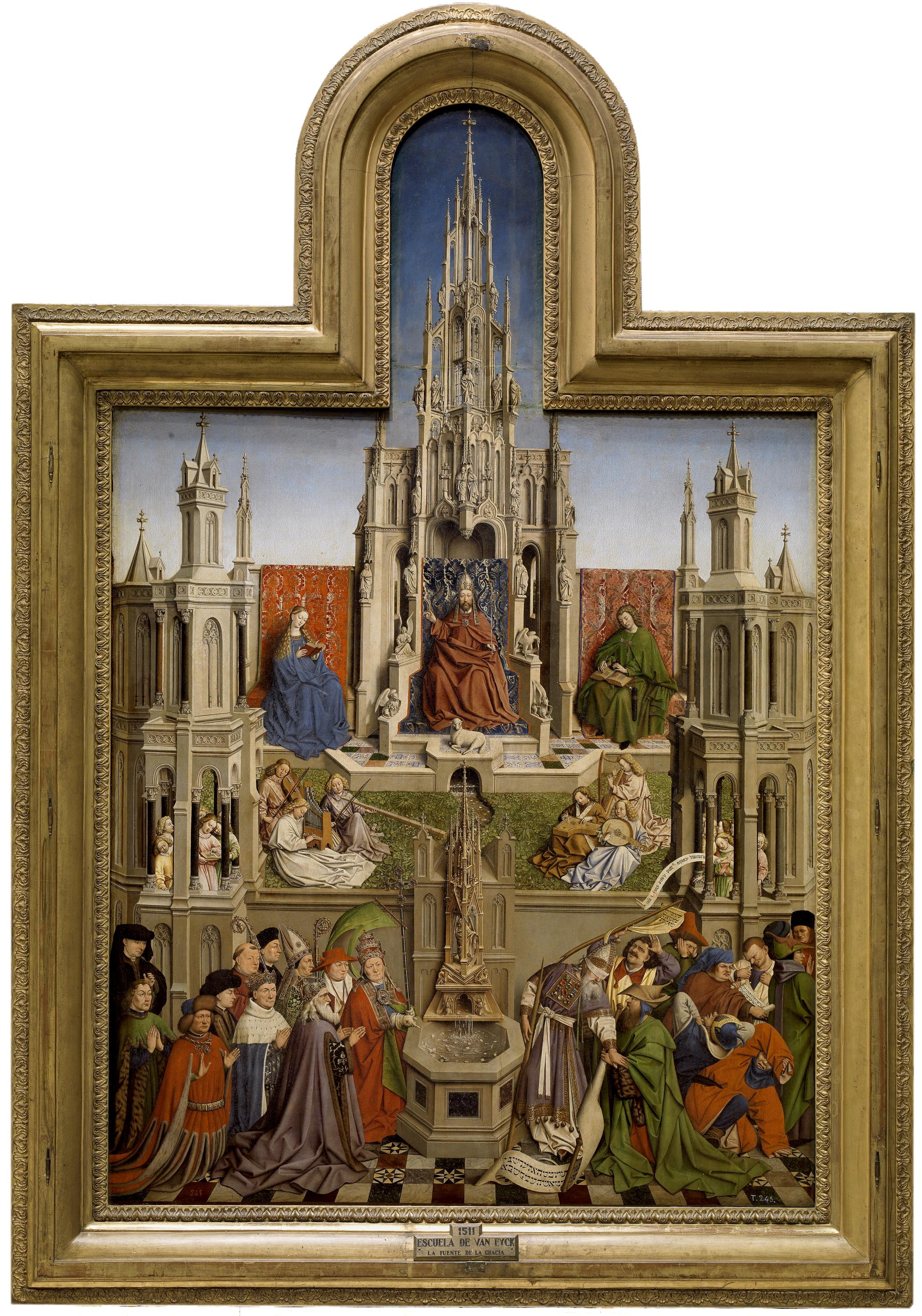 The Fountain of Life An angel displays a scroll with the text of Cant. 4.15: fons hortorum puteus aquarum viventium.